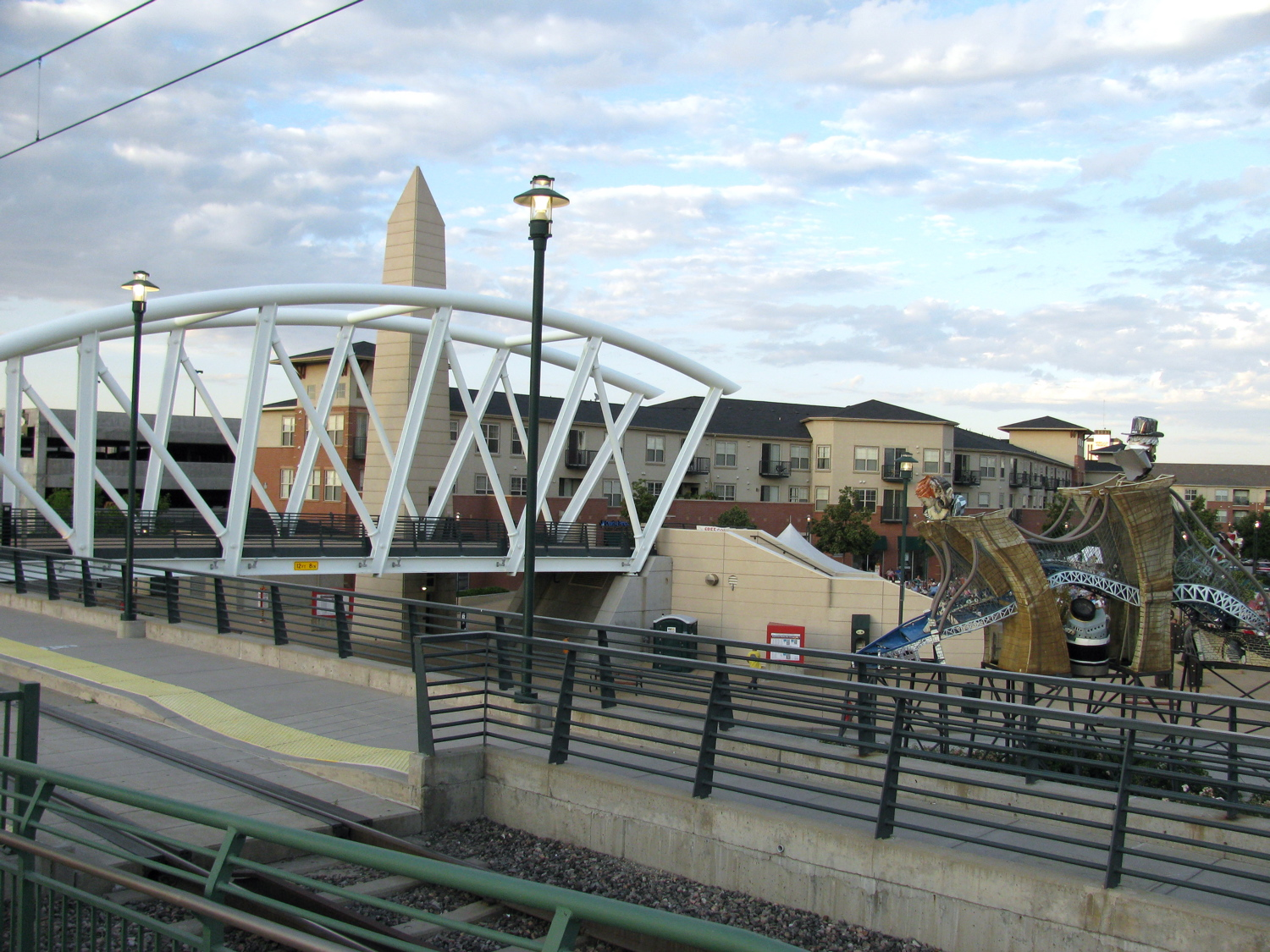 The Alexan apartments, outdoor artwork, and the RTD light rail pedestrian bridge can be seen in this picture.